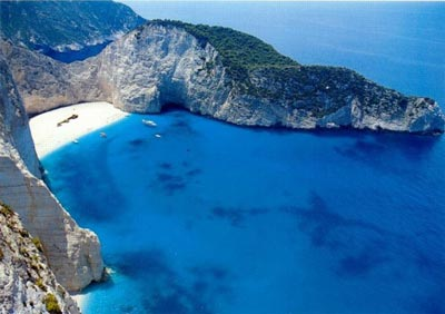 Navagio Beach in Zakynthos, Greece.